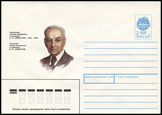 1991 Soviet postal cover featuring Soviet aviator and glider pilot Konstantin Konstantinovich Artseulov